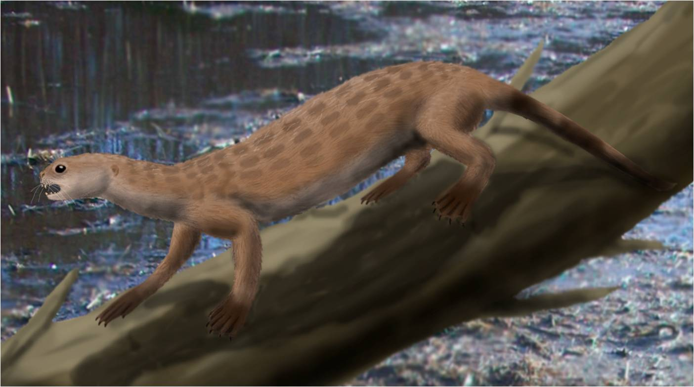 Life restoration of Puijila darwini. Based on fossil reconstruction provided in "A semi-aquatic Arctic mammalian carnivore from the Miocene epoch and origin of Pinnipedia" by N. Rybczynski, M. R. Dawson, and R. H. Tedford Nature 458:1021-1024